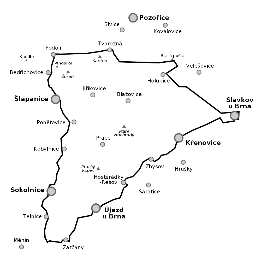 Border of the conservation area of the Austerlitz battlefield.